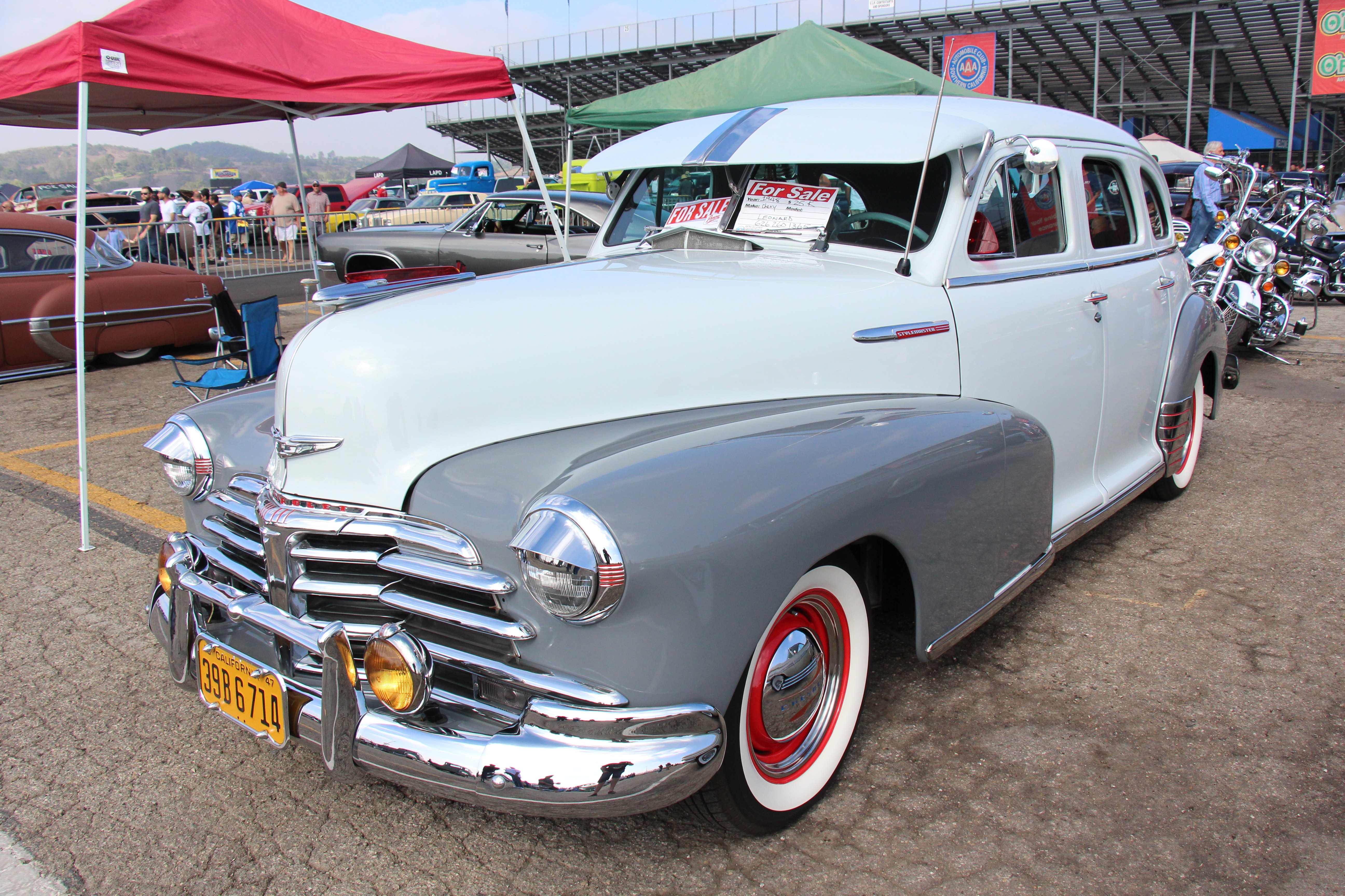 After World War II ended in 1946, Chevrolet started building cars again, the 1946 model was very similar to the 1942 car, with only a new grille. The last facelift of this shape in 1948 saw the grille change again, a heavy vertical bar was back in the centre of the grille. The 1946 to 48 Chev was available in base Stylemaster and upmarket Fleetmaster in Sedan, Coupe, Convertible, Wagon and Delivery. Also available was the fastback bodied, Fleetline in Sedan or Coupe. Chevrolet sedans were also produced in Australia by General Motors using modified American bodies from 1926-68. Engine; 216 cu in Victory 6